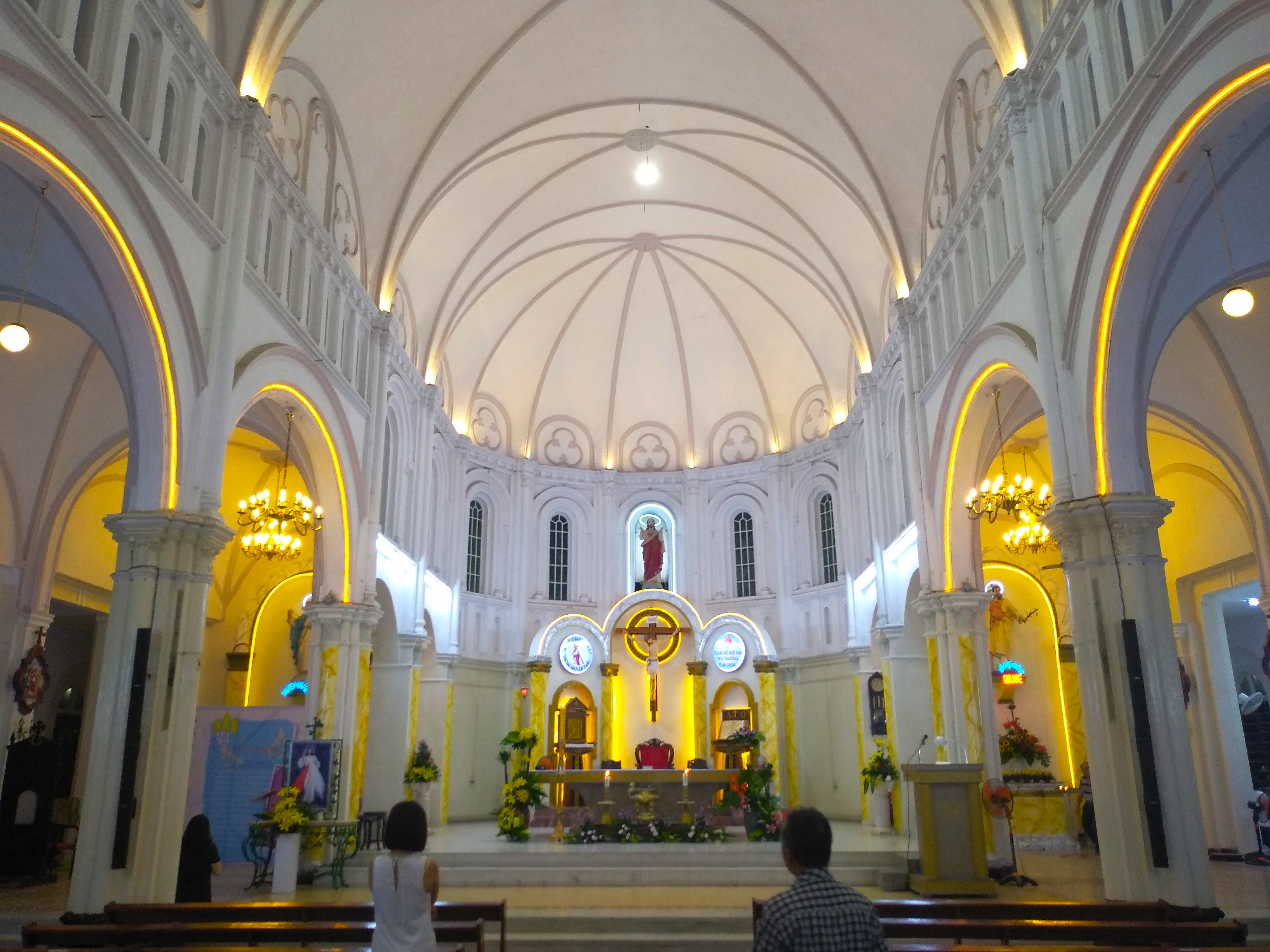 The general view of altar of Cho Quan Church, Roman Catholic Archdiocese of Ho Chi Minh City